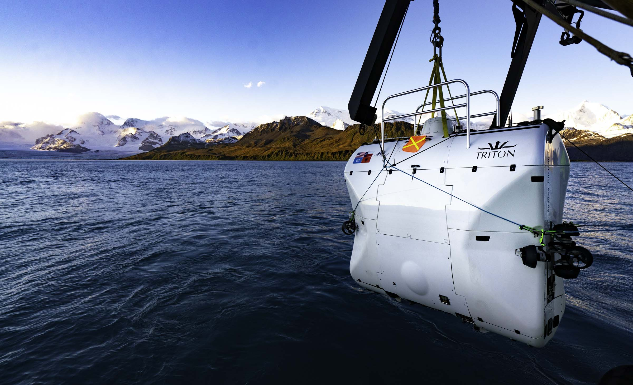 An improved launch and recovery procedure was tested in the Cumberland East Bay before the whole crew went ashore to clear British customs.